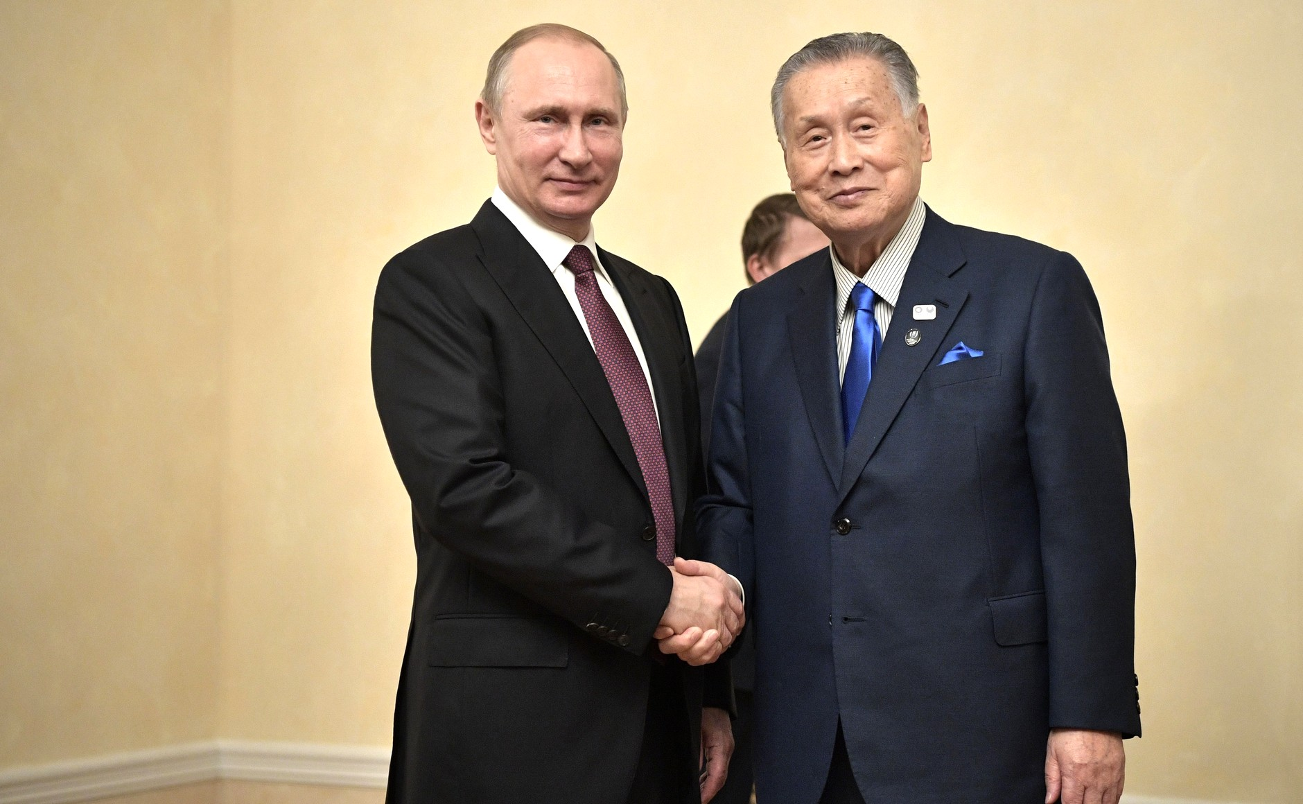 With Former Japanese Prime Minister Yoshiro Mori.